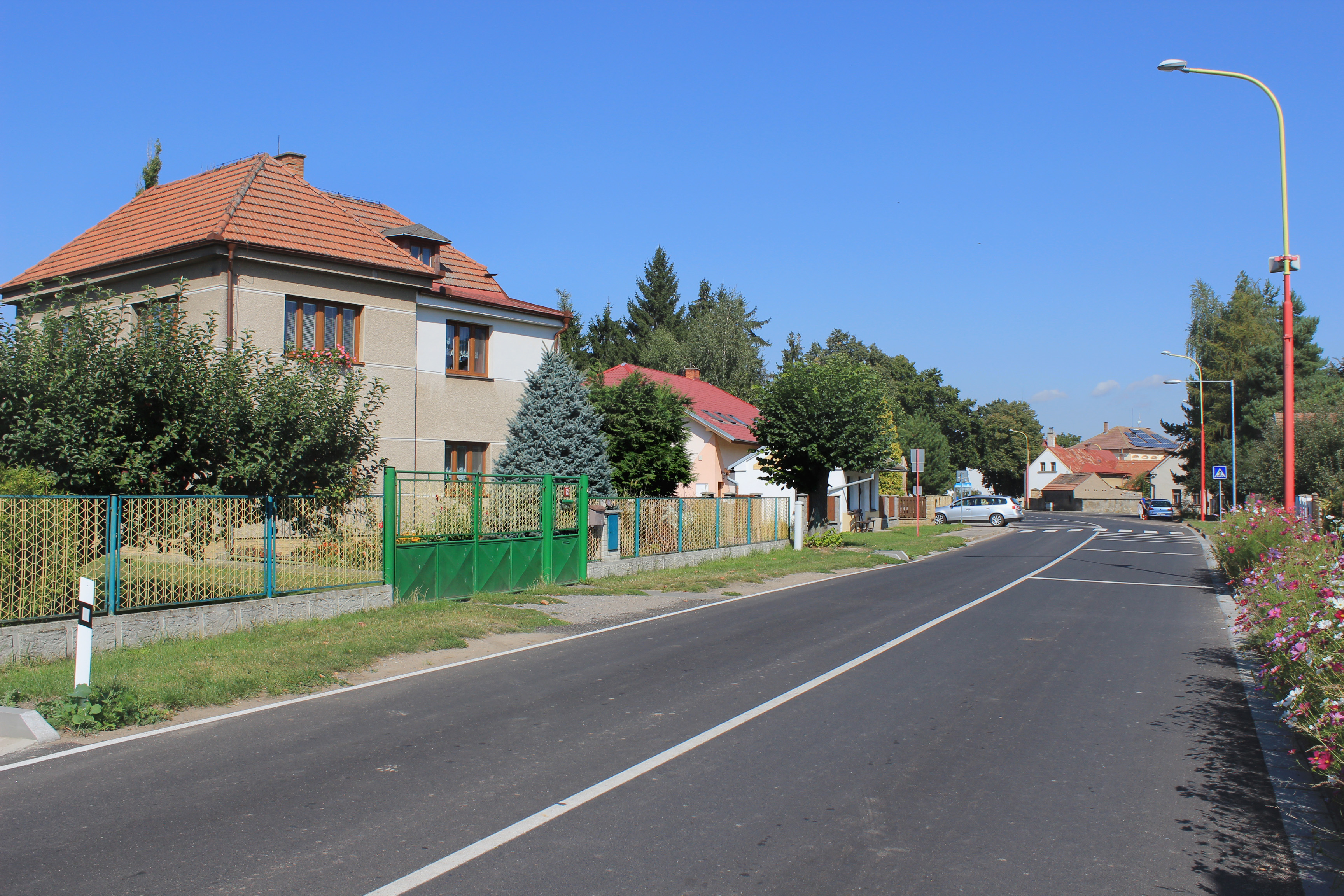 Road No. 329 in Vestec, Czech Republic.